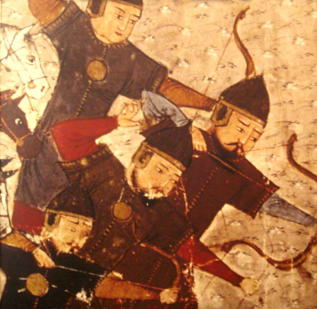 Mongol archers featured in Compendium of Chronicles of Rashiduldin Hamadani, year 1305